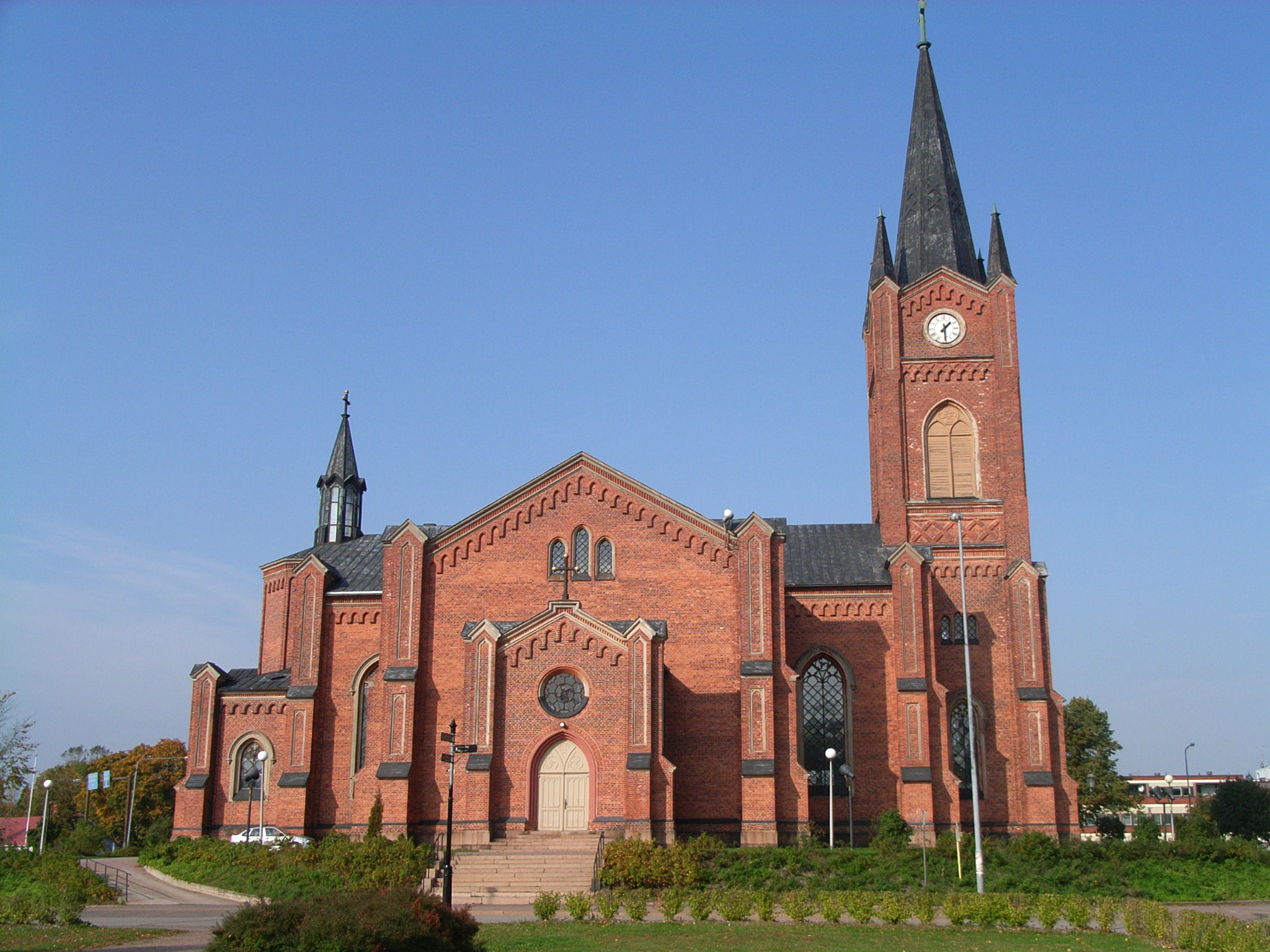 Loviisa, Finland, neo-gotic church from 1865, picture taken from south